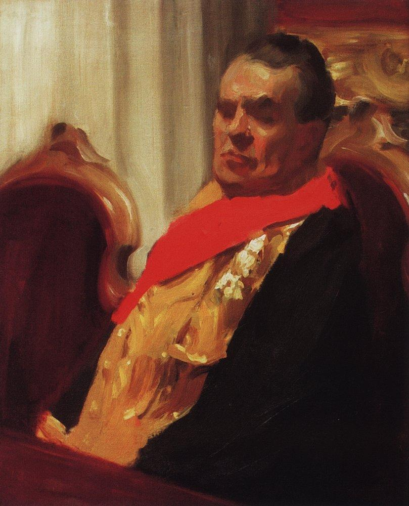 Portrait of president of the Russian Historian Society, honorary member of the Academy of Sciences and member of State Council Aleksander Aleksandrovich Polovtsov. Study for the picture Formal Session of the State Council.